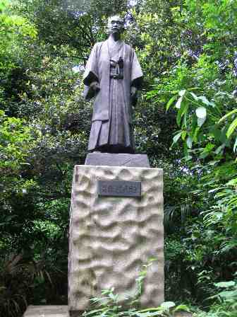 Statue of Kano Jigoro in Sensyunen (republished statue)